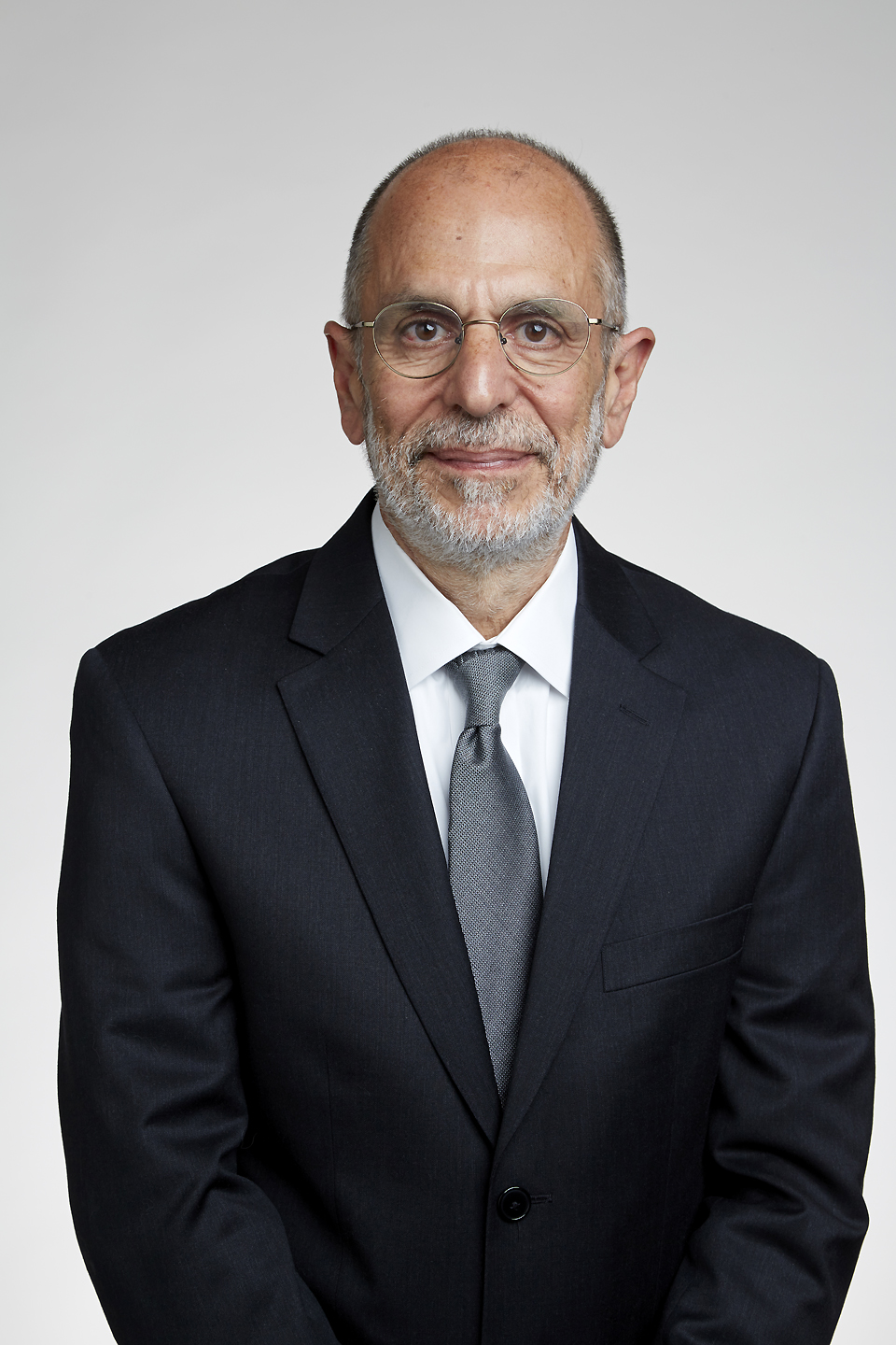 Robert Joseph Cava (born 1951) is a solid-state chemist at Princeton University where he holds the title Russell Wellman Moore Professor of Chemistry. Attribution: The Royal Society